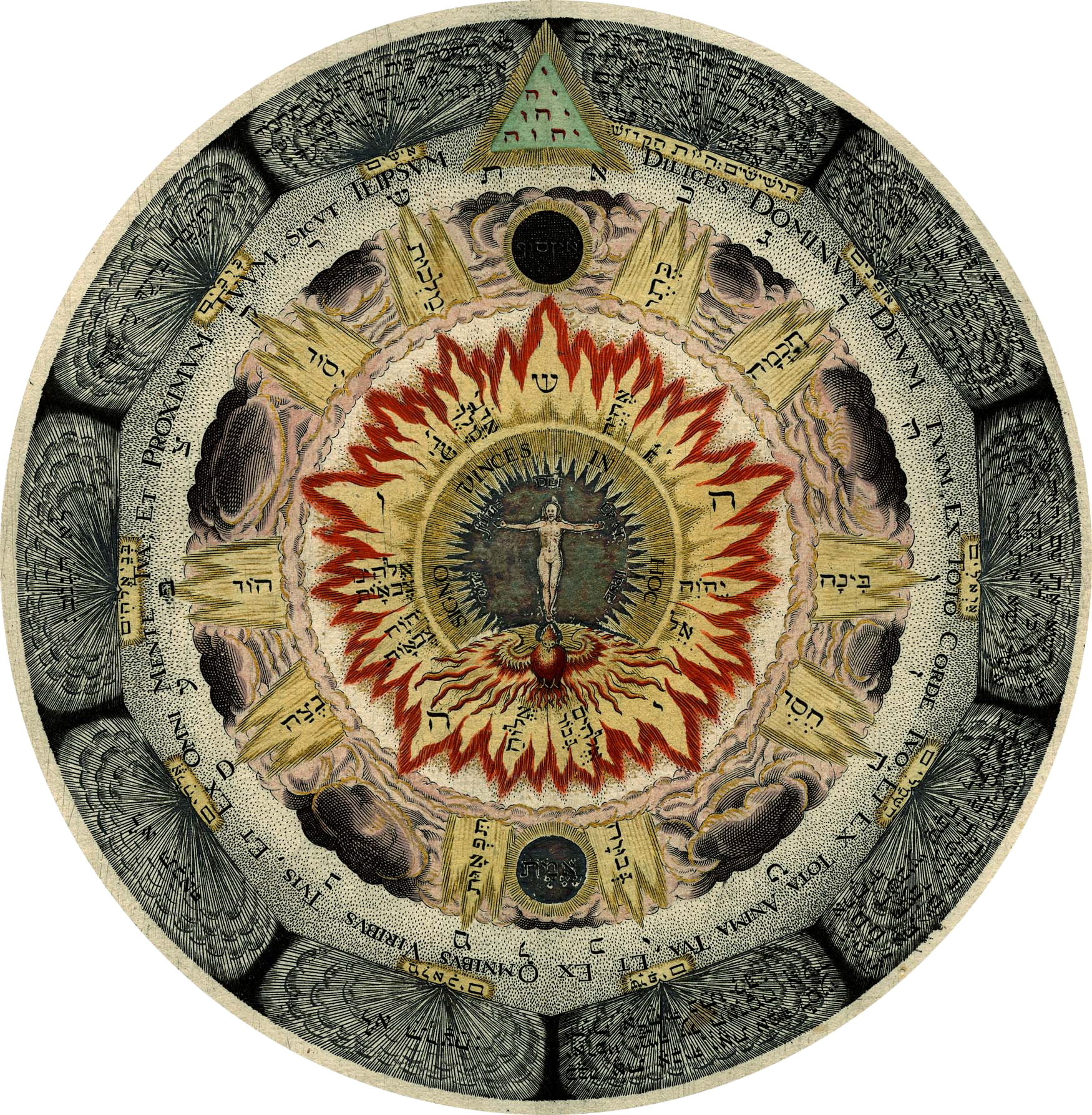 The cosmic rose Engraving pictured in the book Amphitheatrum sapientiae aeternae written by Heinrich Khunrath. The triangle near the top contains a tetractys of the Tetragrammaton (Hebrew name of God). The five large Hebrew letters near the red jagged outline form the "Pentagrammaton".